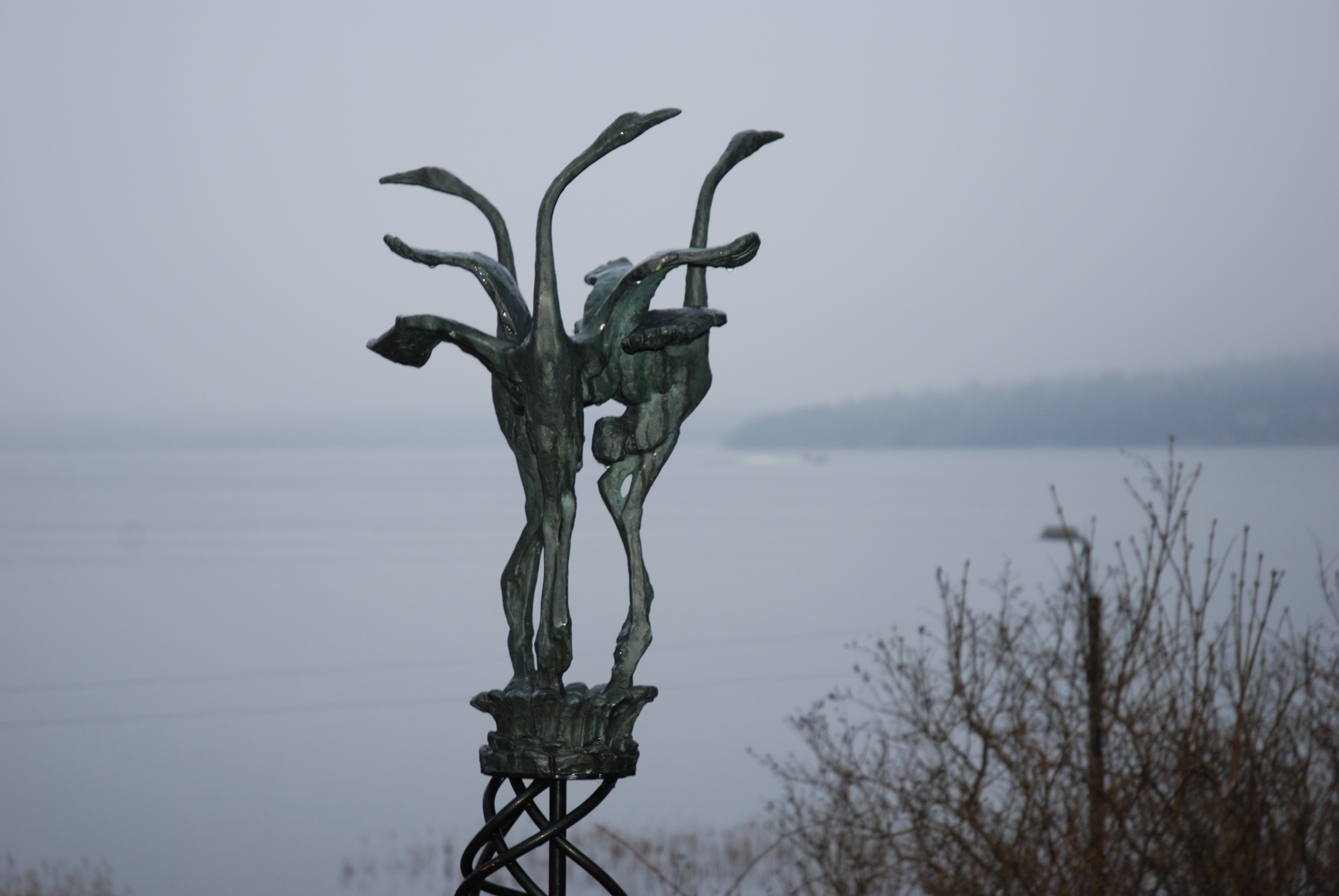 Jussi Mäntynen´s Dancing cranes, bronze, Vår Gård, Saltsjöbaden, Sweden